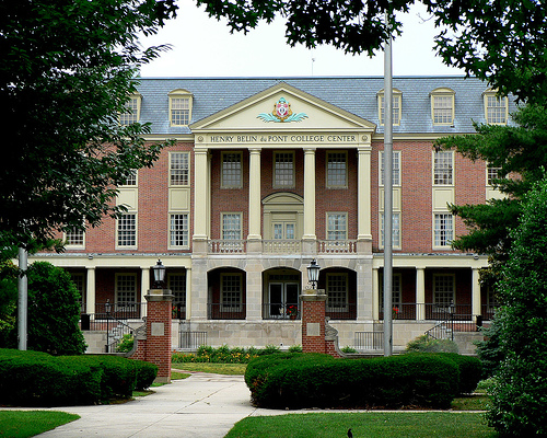 Wesley College Archives 2005. All Rights Reserved.